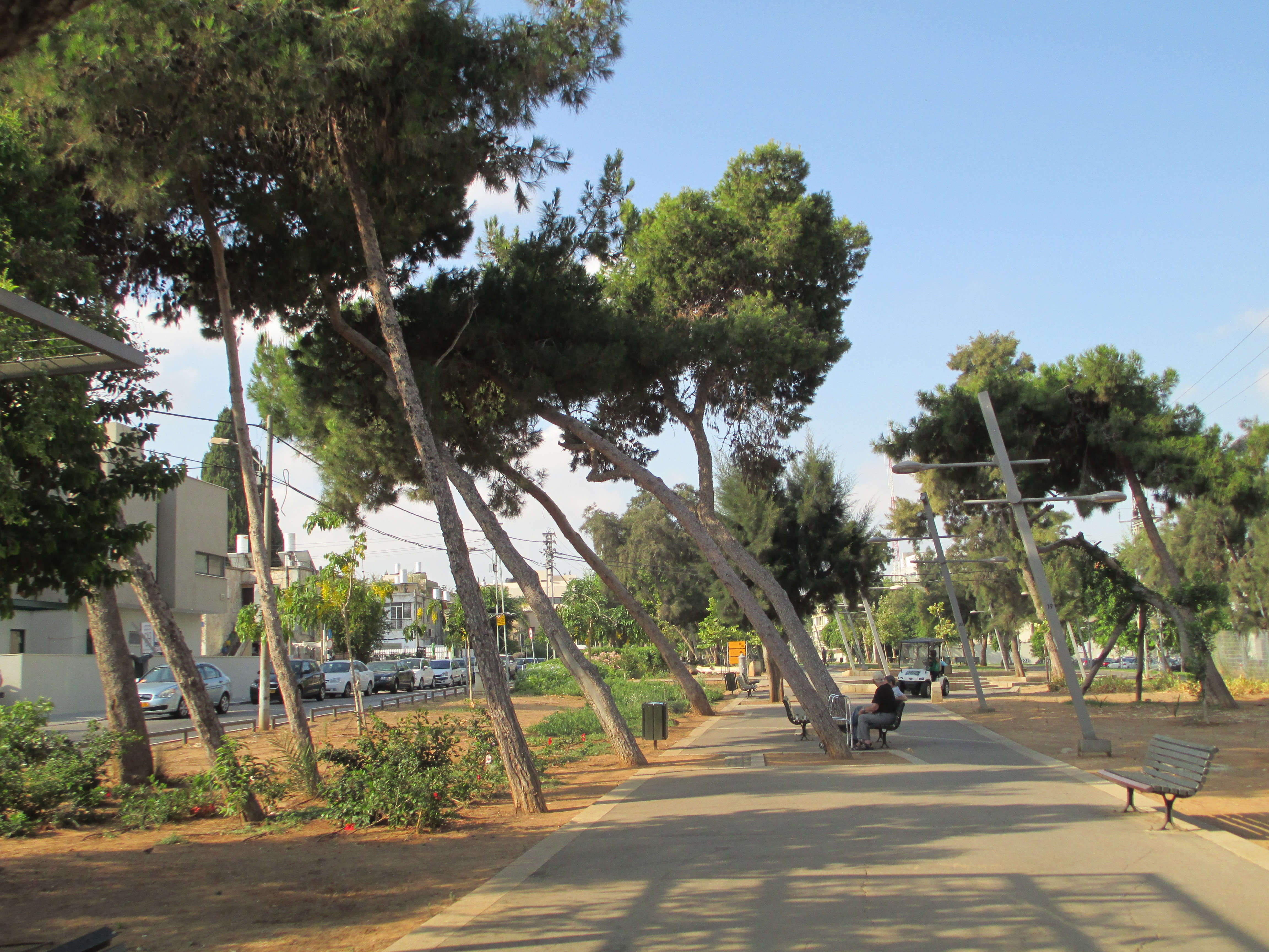 hahaskala boulevard in tel aviv